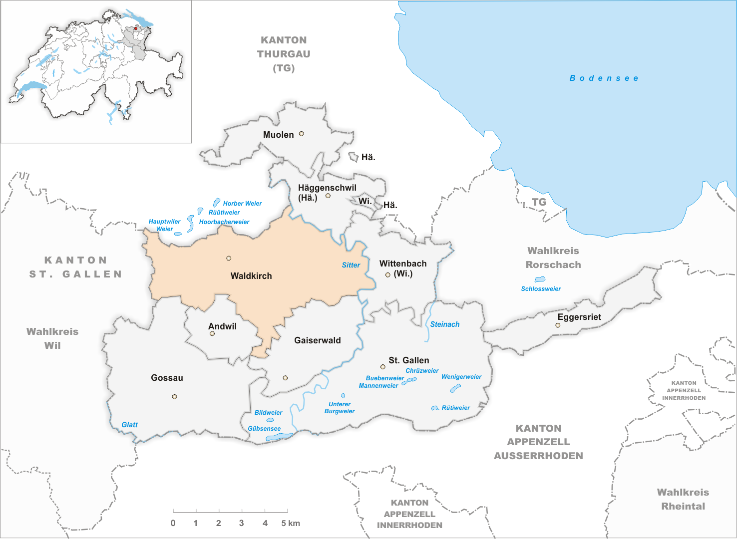 Municipality Waldkirch